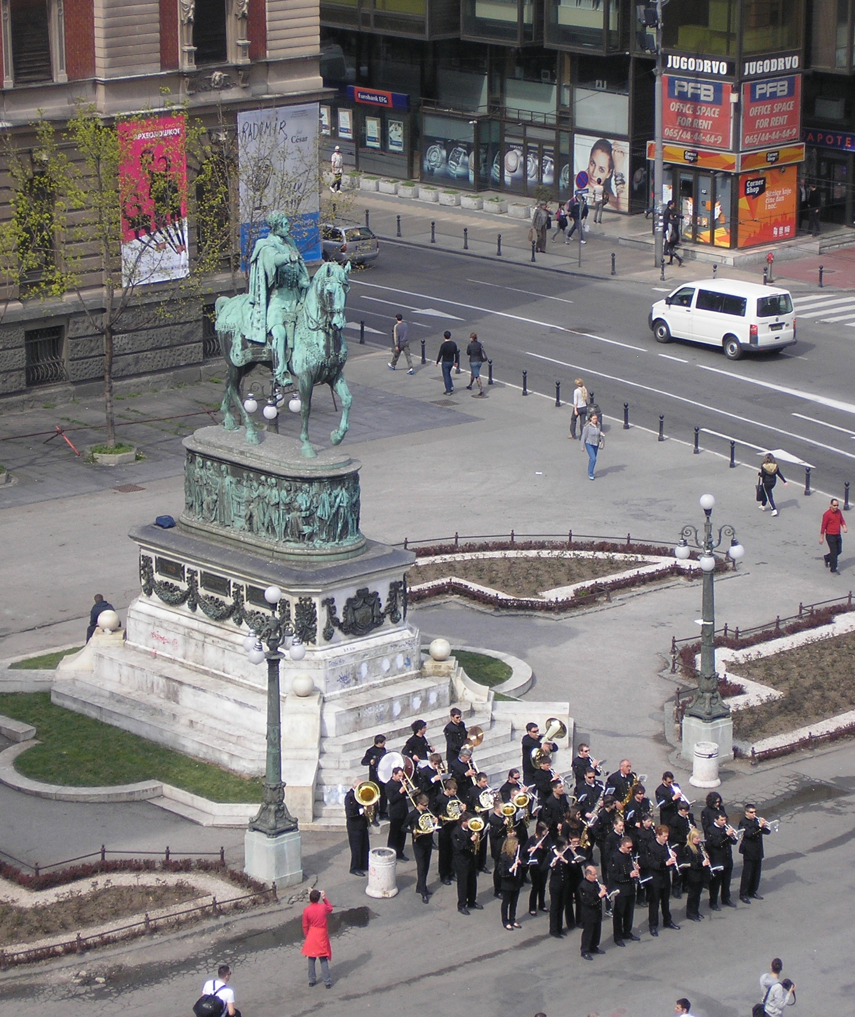 Slovenian orchestra performed at 14:00 on Trg Republike in Belgrad, Serbia, for arrival of Slovenian prime minister.